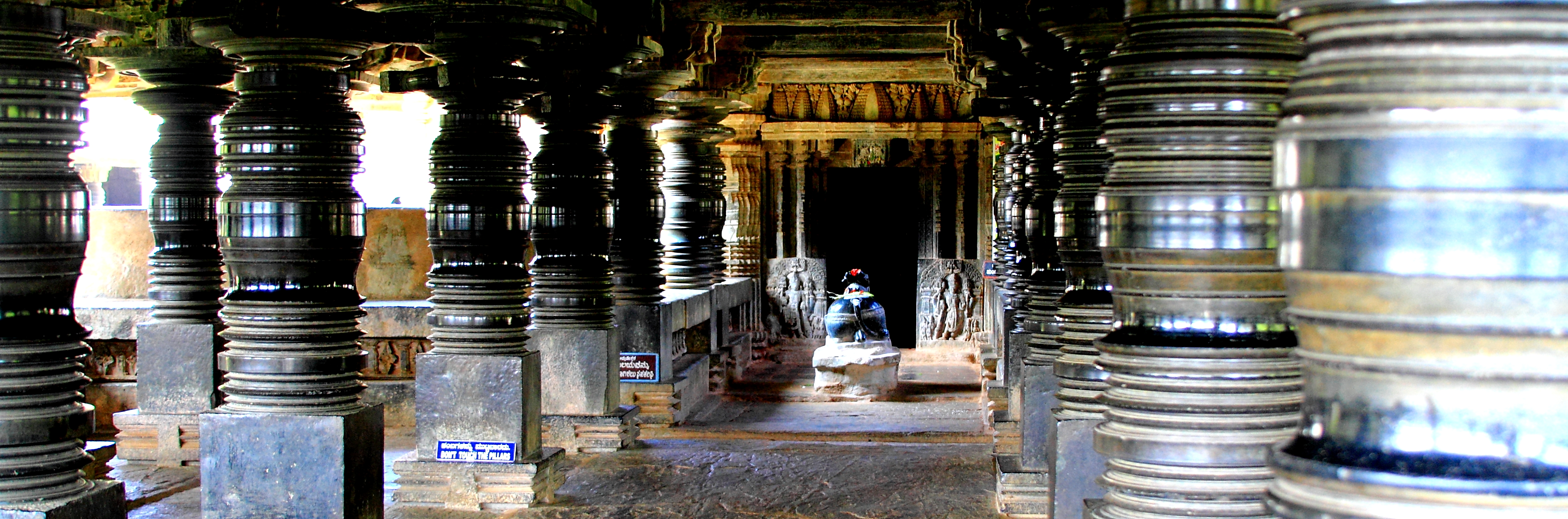 The rows of shining lathe turned pillars that support the ceiling of the mantapa is a Hoysala-Chalukya decorative idiom. (ref